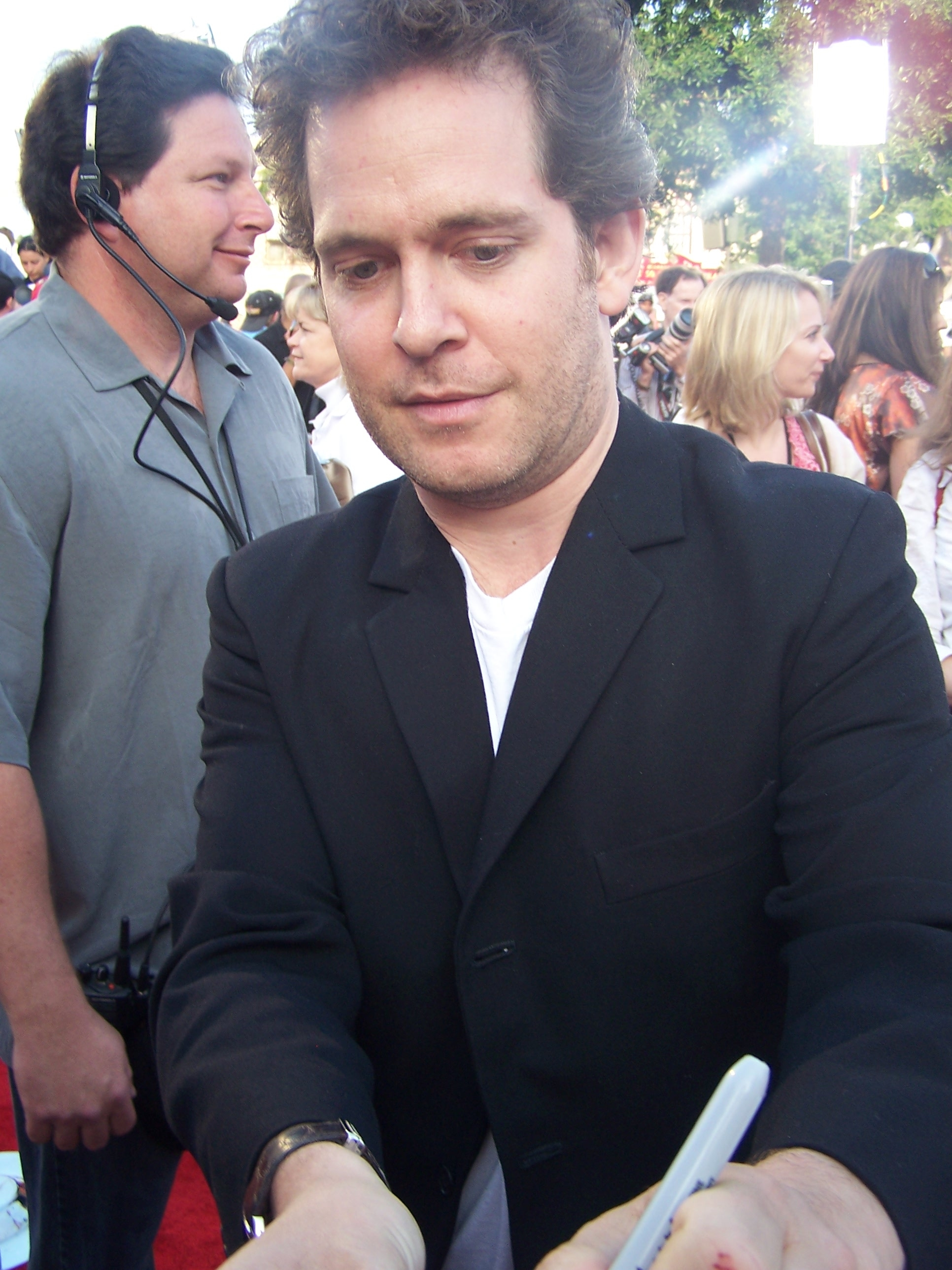 English actor Tom Hollander.